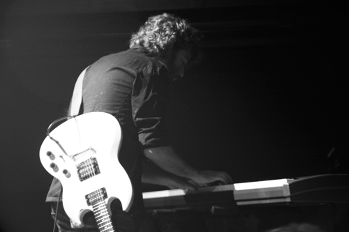 J.M. Latorre, member of Spanish pop rock band Vetusta Morla